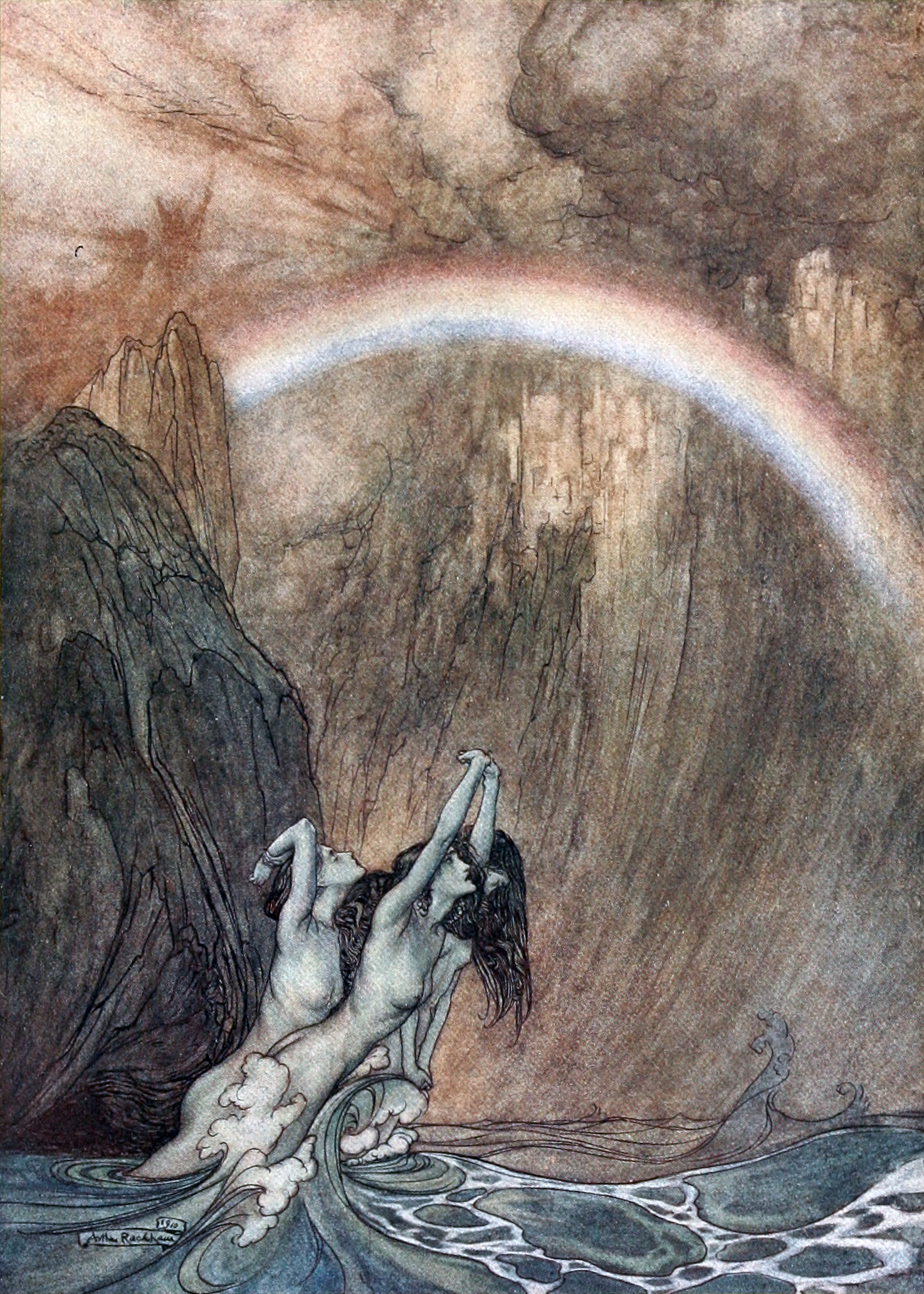 "The Rhine's fair children, / Bewailing their lost gold, weep."